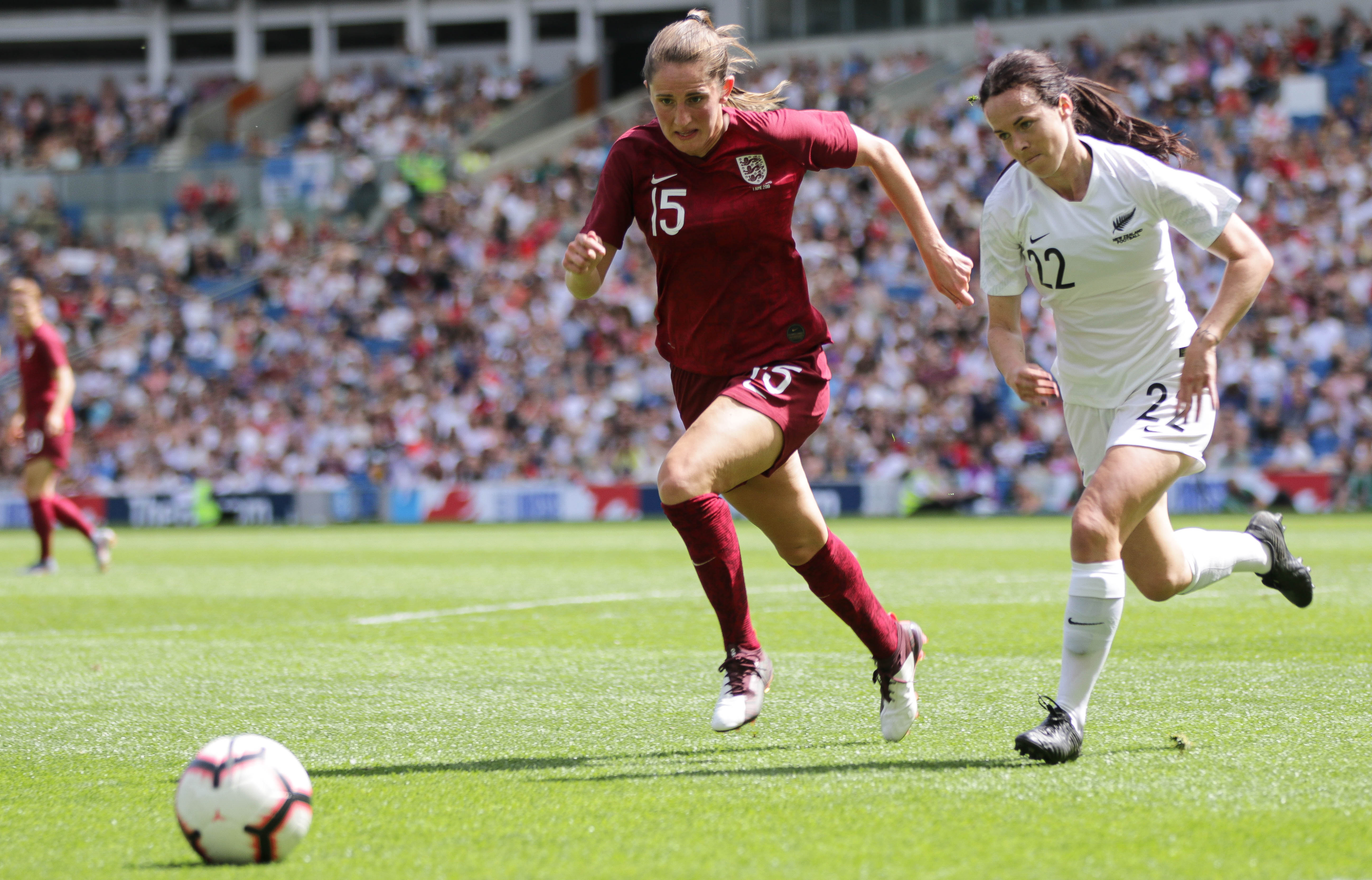 England Women 0 New Zealand Women 1 01 06 2019-1086.jpg